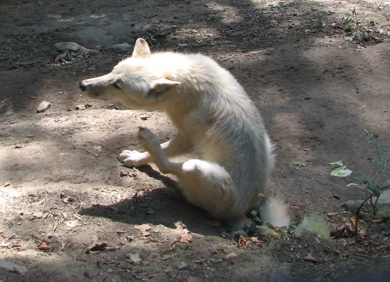 Mackenzie Valley Wolf (Canis lupus occidentalis) in ZOO Olomouc, Czech Republic